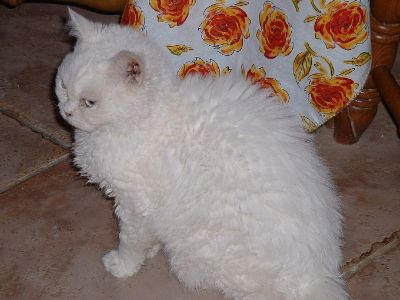 Author: Jean Goyer (myself)